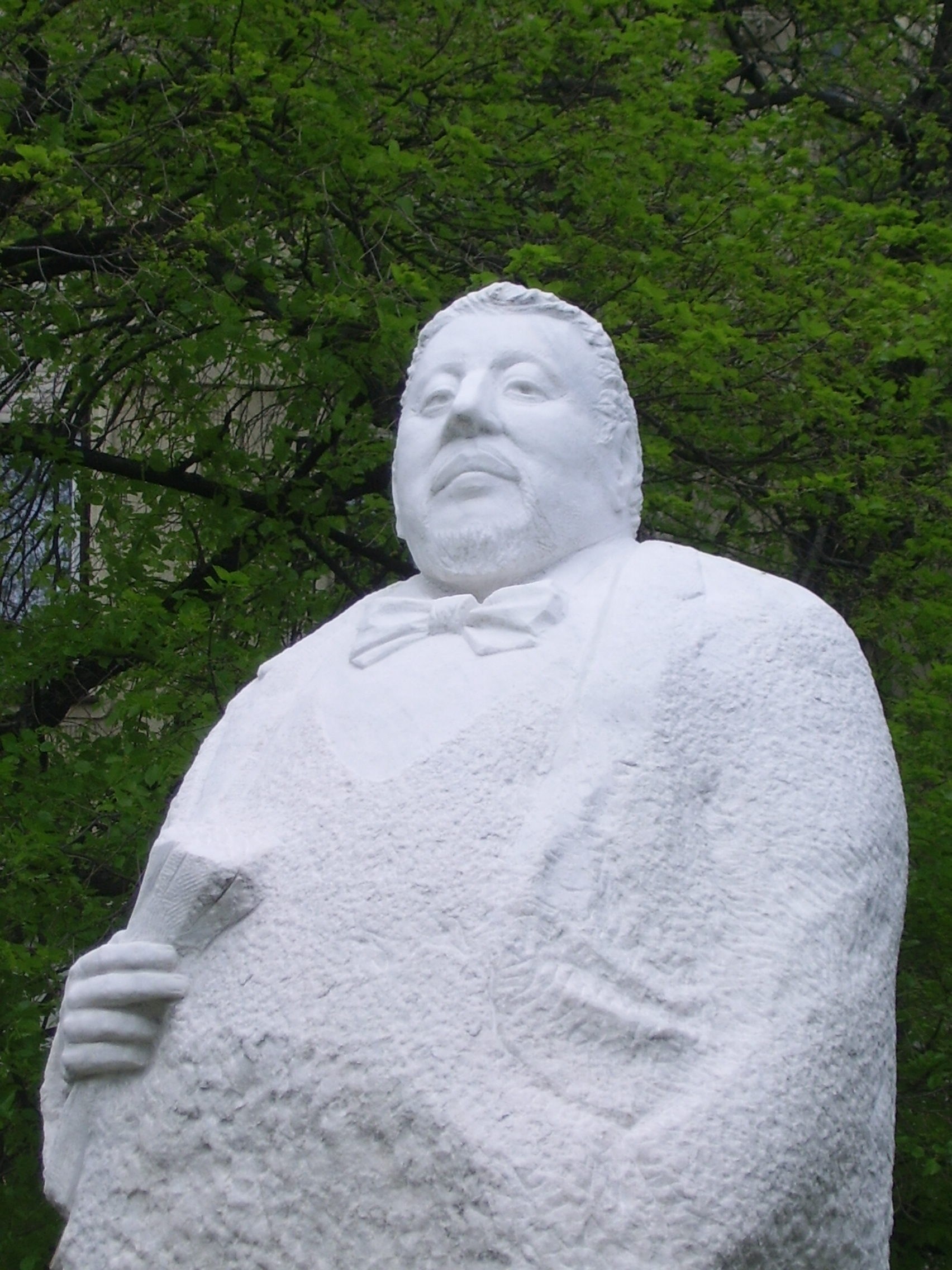 András Rapcsák, the mayor of Hódmezővásárhely (1990-2002)